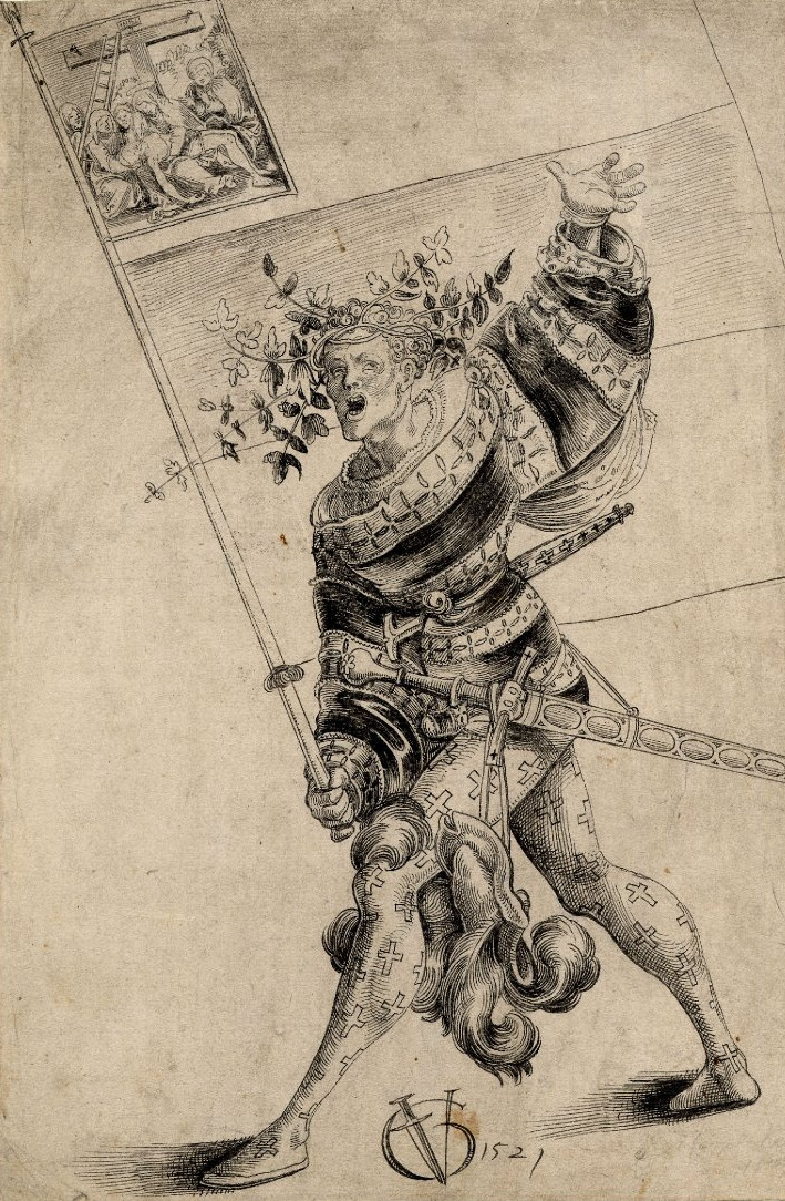 "The bearer of the 'Julius' banner of the canton Zug; man wearing an elaborate costume striding to l, his mouth open, l arm raised and r hand carrying a banner, depicting in the top l corner the Passion scene Descent from the Cross, he is wearing a crown of foliage and carrying a sword and dagger, a feathered hat hangs down by his legs. 1521 Pen and black ink"